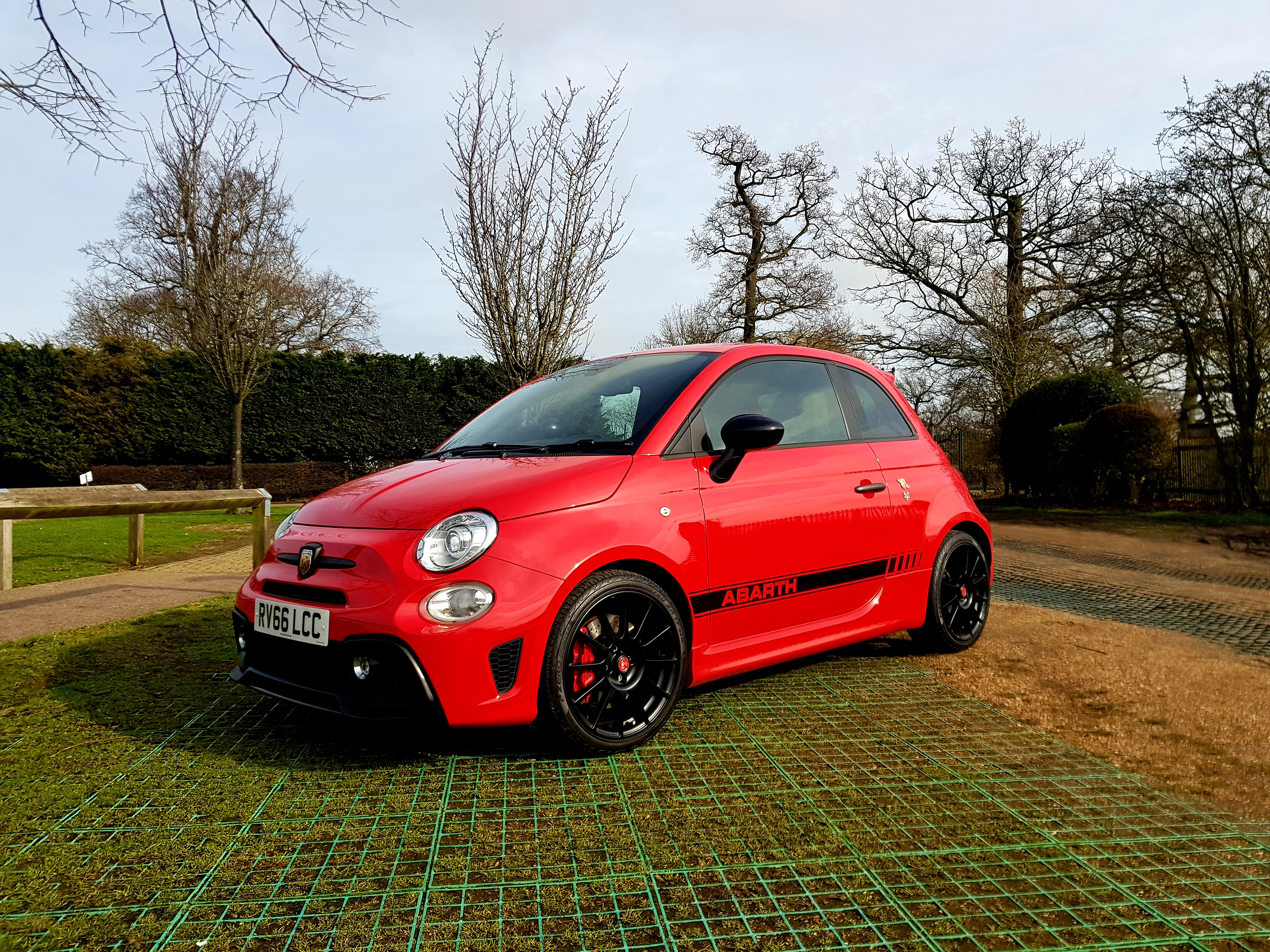 Abarth 595 Competizione